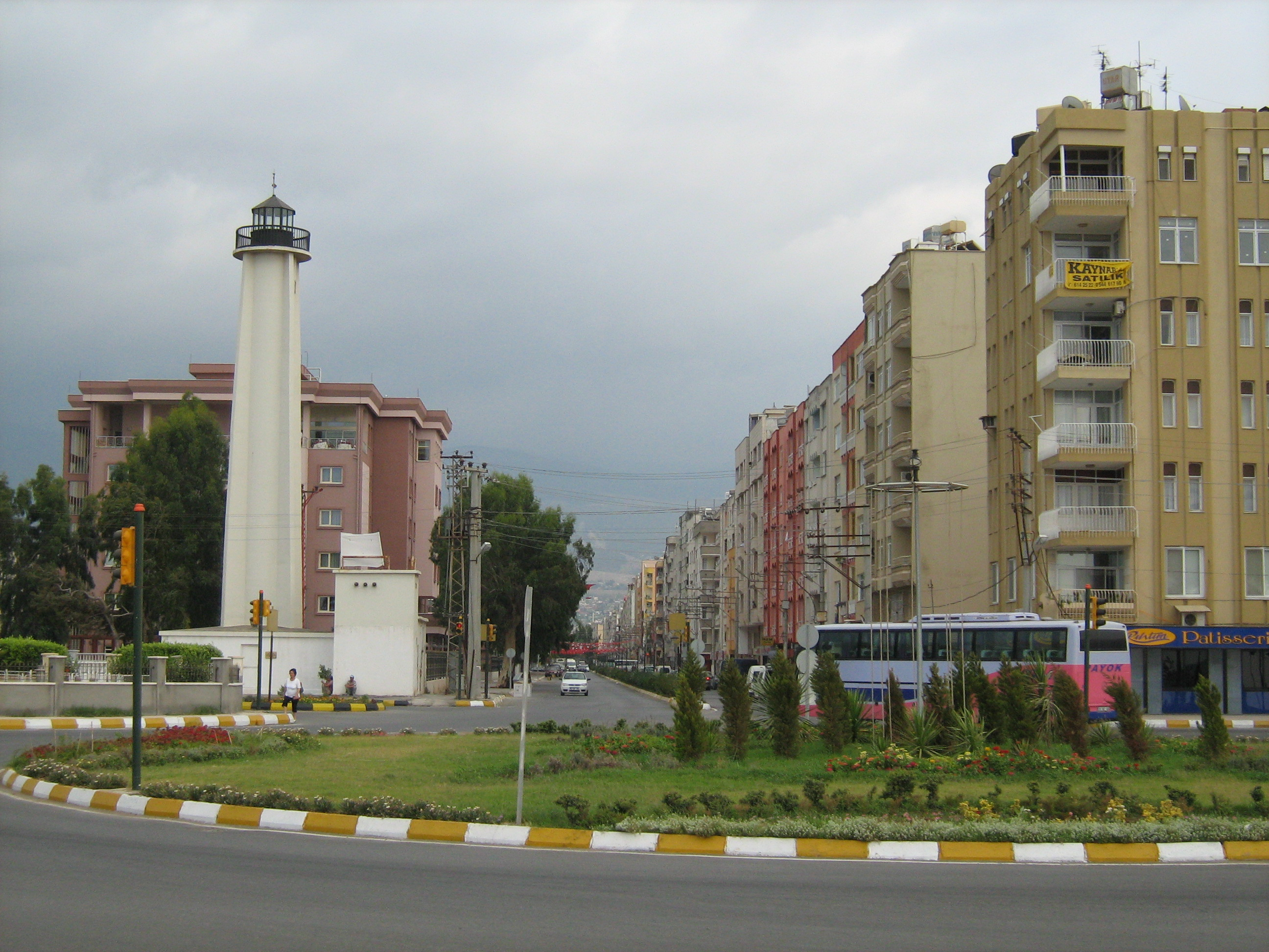 from Ataturk Boulevard, Ismet Inonu Avenue and Lighthouse